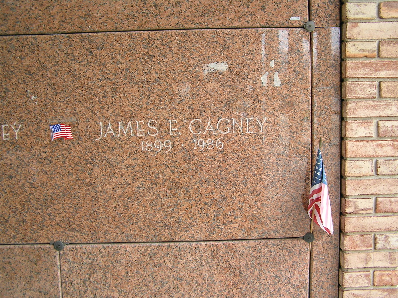 I took this photograph of James Cagney's crypt in Gate of Heaven Cemetery. -- GNU Free Documentation License